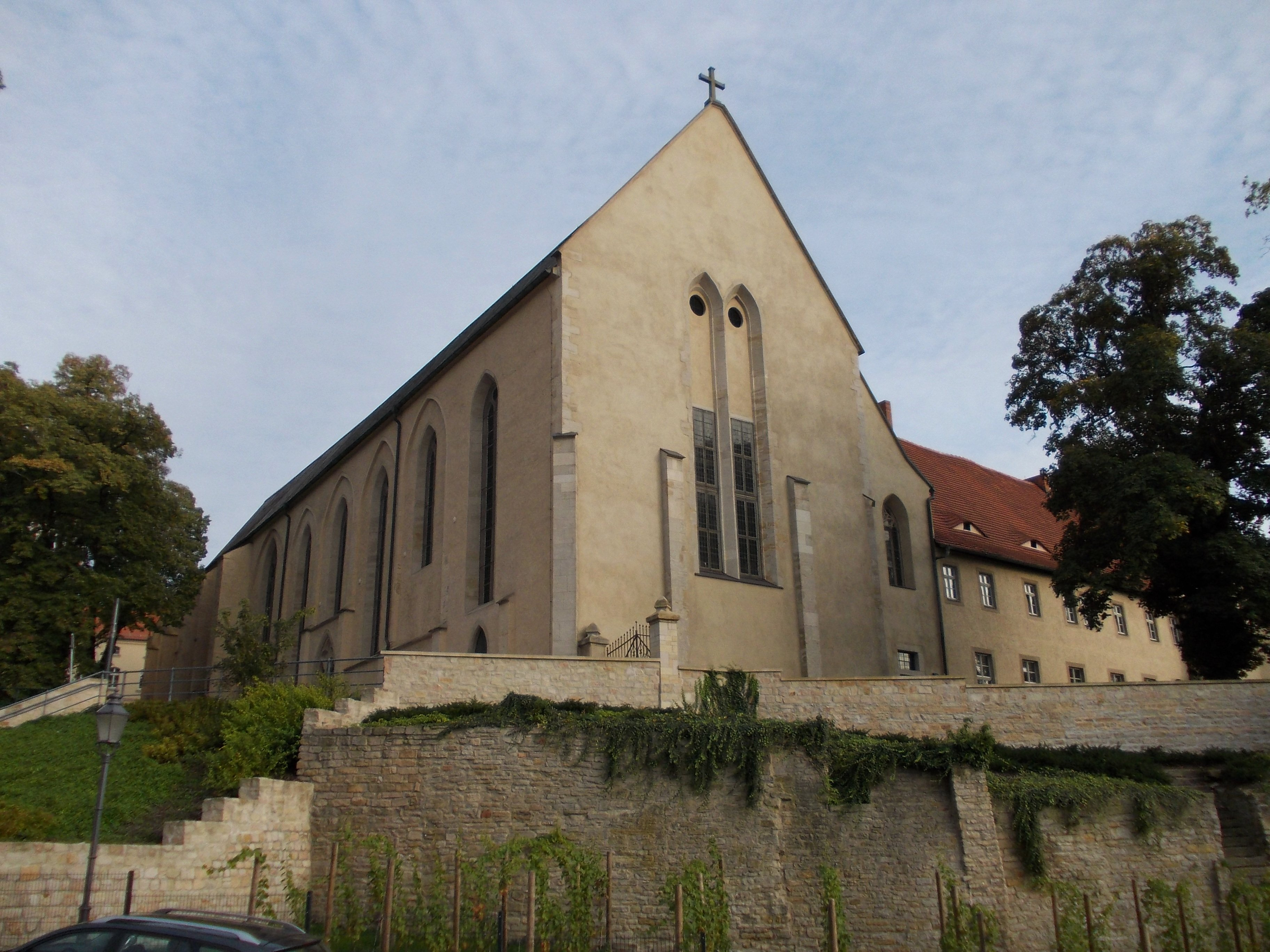 Former Franciscan monastery in Zeitz (district of Burgenlandkreis, Saxony-Anhalt)